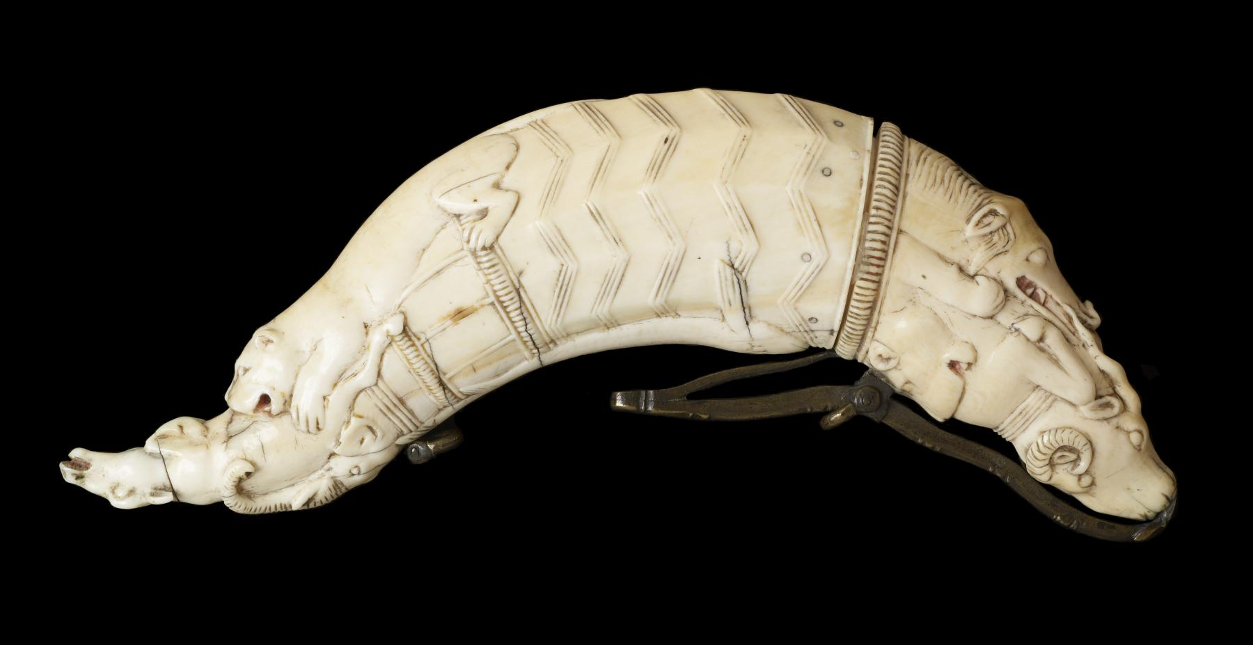 The powder flask (also known as a priming flask) was an essential firearm accessory and held the fine powder needed to make the gun fire. Gunmakers in India during the Mughal era (1526-1858) specialized in carving ivory powder flasks with animal figures. Often, as these two examples, the decoration consists of intertwined and composite creatures that seem to grow out of or attack one another. One such menagerie, on the right-hand flask, includes a cheetah or lion chasing an antelope in the center, and bucks, antelopes, lions, birds, a boar, elephant, and mongoose at the two ends. Many of these animals were regularly hunted (or used for hunts, as with the elephant), in Mughal India.